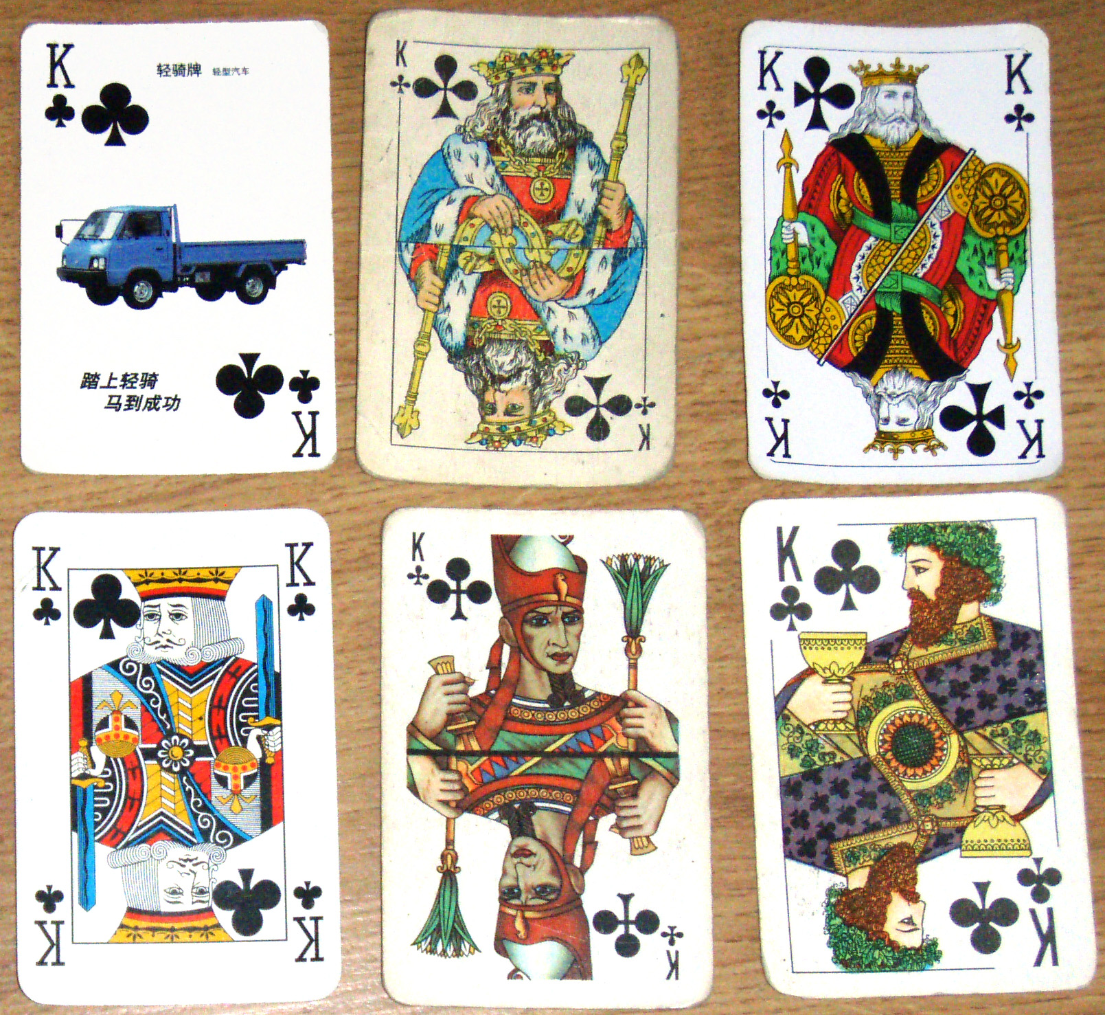 Different kinds of Kings of Clubs